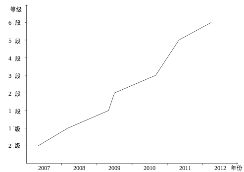 Historical KGS Ratings of the best computer go programs. (accessed on 2012-05-03)